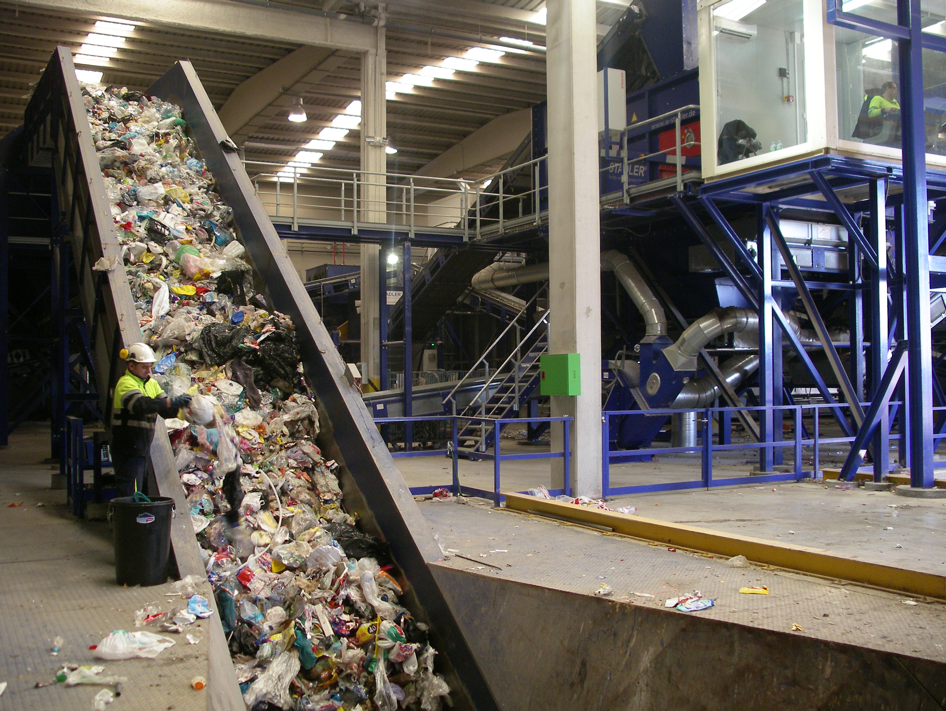 Feeder for the granulator